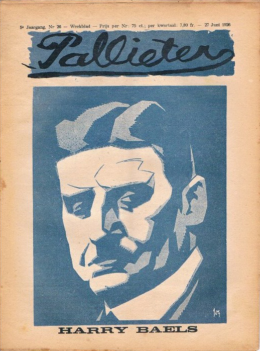 Henri Baels. Front page of the Flemish magazine Pallieter (1922-1928). All front pages were designed and illustrated by Jos De Swerts (1890-1939).